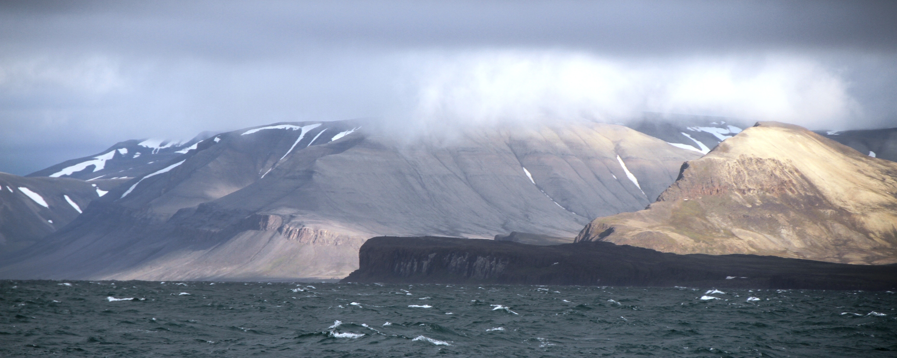 The Sassenfjorden and Tempelfjorden area of northern Nordenskiöld Land, seen from the intersection in Billefjorden - Svalbard. Diabasodden peninsula has fossil remains of dinosaures.